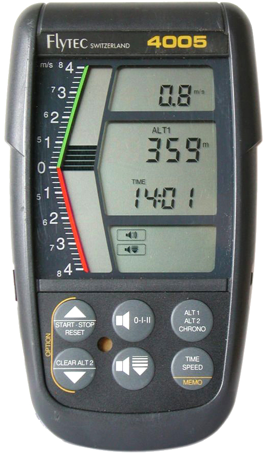 Simple Variometer for paragliders, hang gliders and balooneers Left is a graphic display of the ascending/descending rate in 1/5 meter per second (i.e. four segments above zero represent an ascending of 0.8 meter per second as shown in this example) On top is the equivalent value as described in numeric form In the middle is the actual hight above sea level in meter and the current time The lowest field is reserved for status icons of the instrument